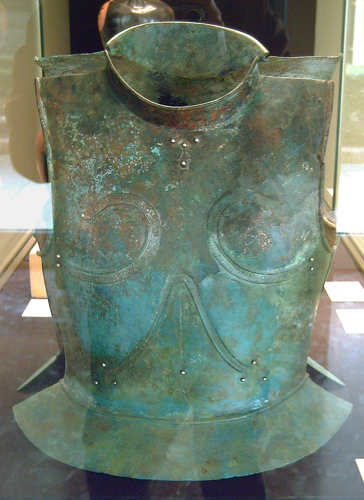 Ancient Greek bronze cuirass, at the National Archaeological Museum of Spain, in Madrid. Made between 620 and 580 BC. It's a sample of one of the oldest types of Greek military equipment from the archaic period.